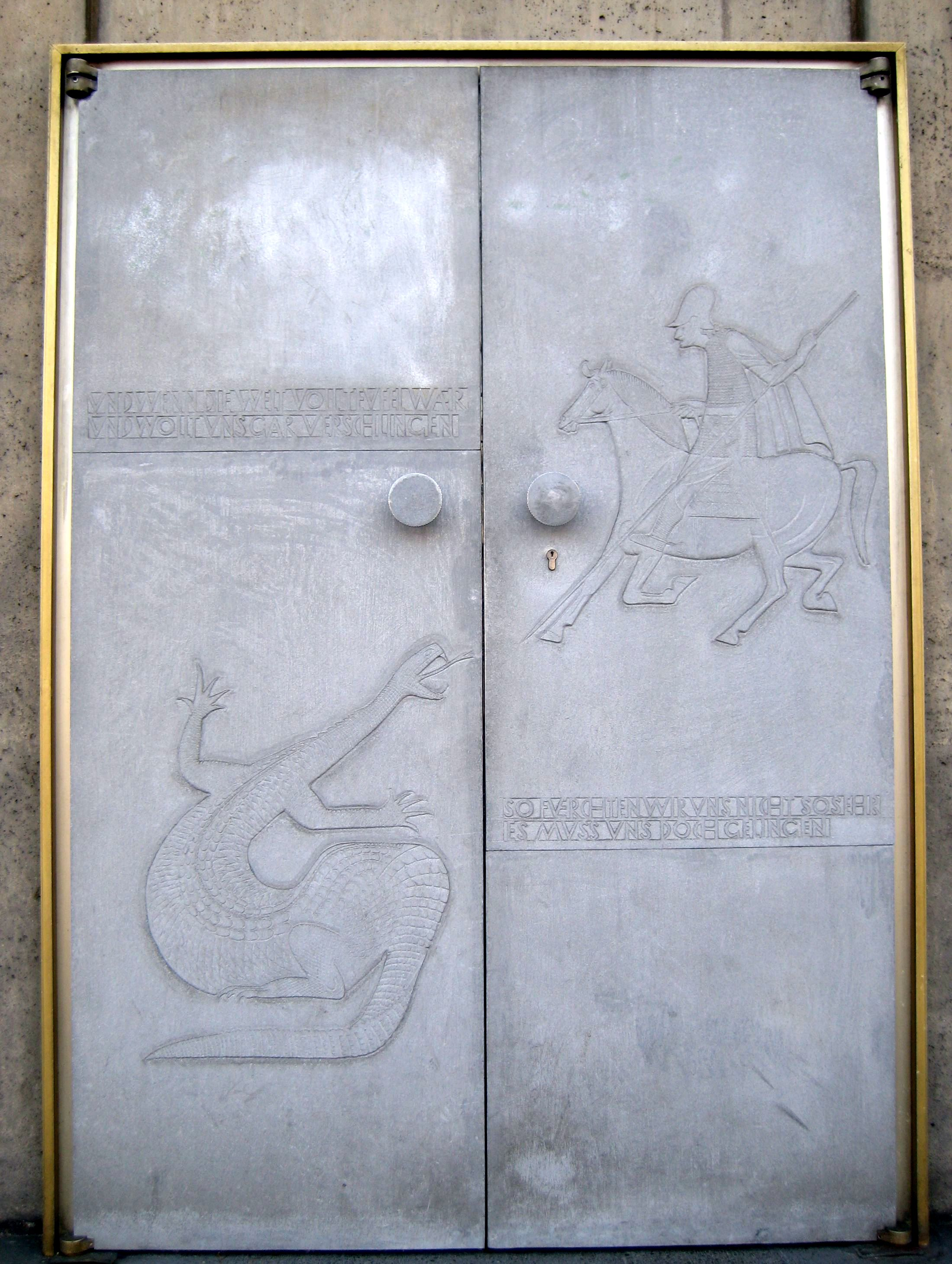 Saint George fighting the dragon; relief on aluminium portal of Emperor Friedrich Memorial Church (Kaiser-Friedrich-Gedächtniskirche) in Berlin, Hansaviertel. Created by Gerhard Marcks (1957).